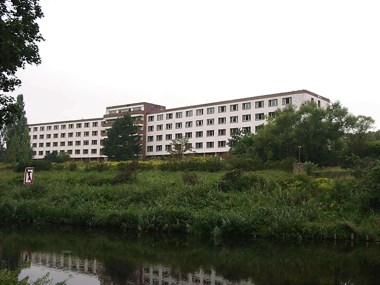 Ruin of trade union hotel "Salvador Allende" in Templin, Brandenburg, Germany.